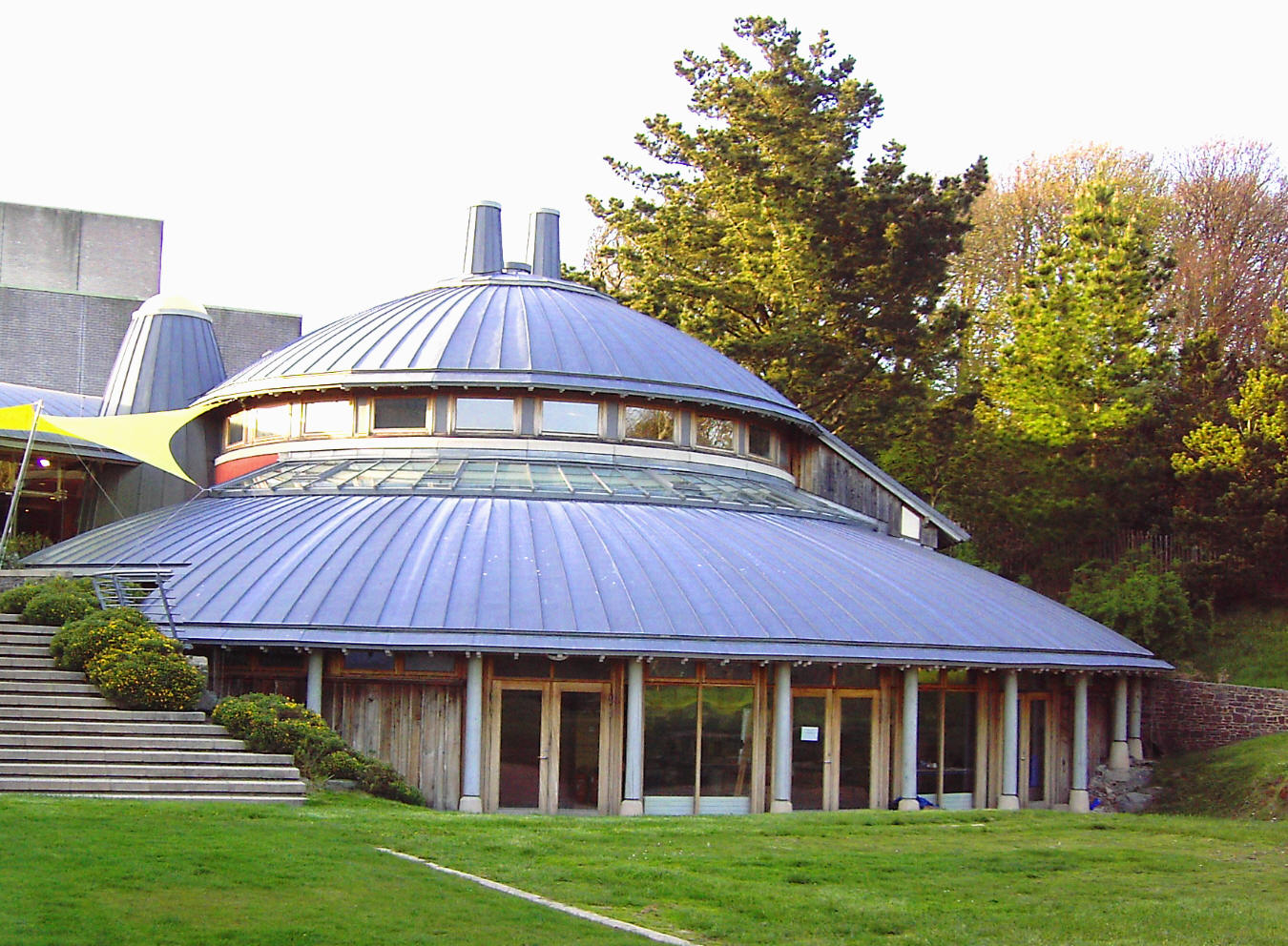 The Studio area of Aberystwyth Arts Centre.